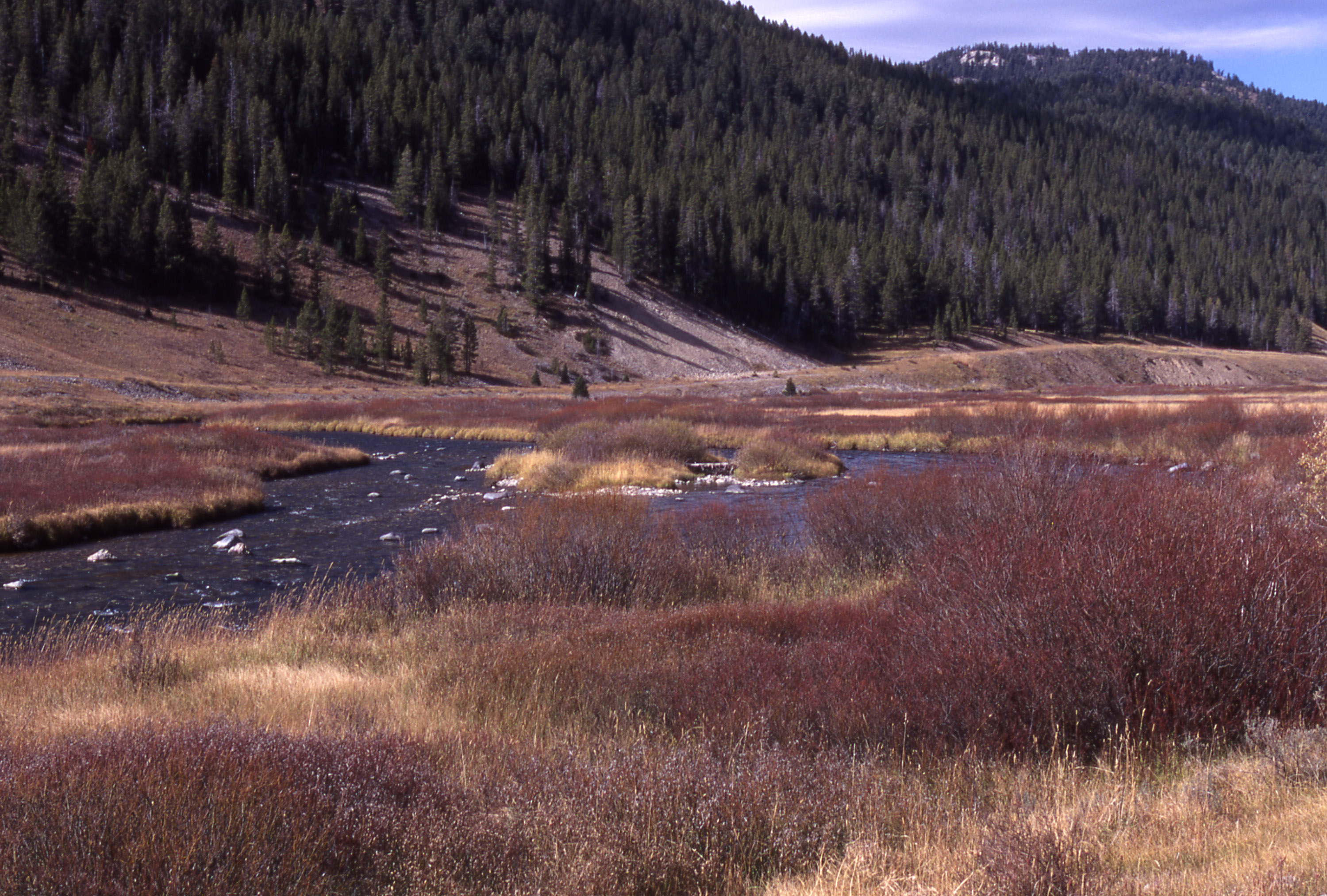 Gallatin River in Yellowstone National Park 1997